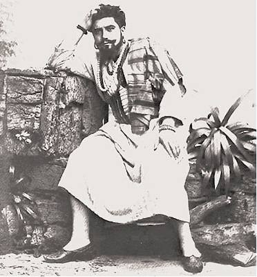 Portrait of French opera singer Maurice Renaud (1861-1933) as Zurga in Bizet’s “Les Pêcheurs de Perles”